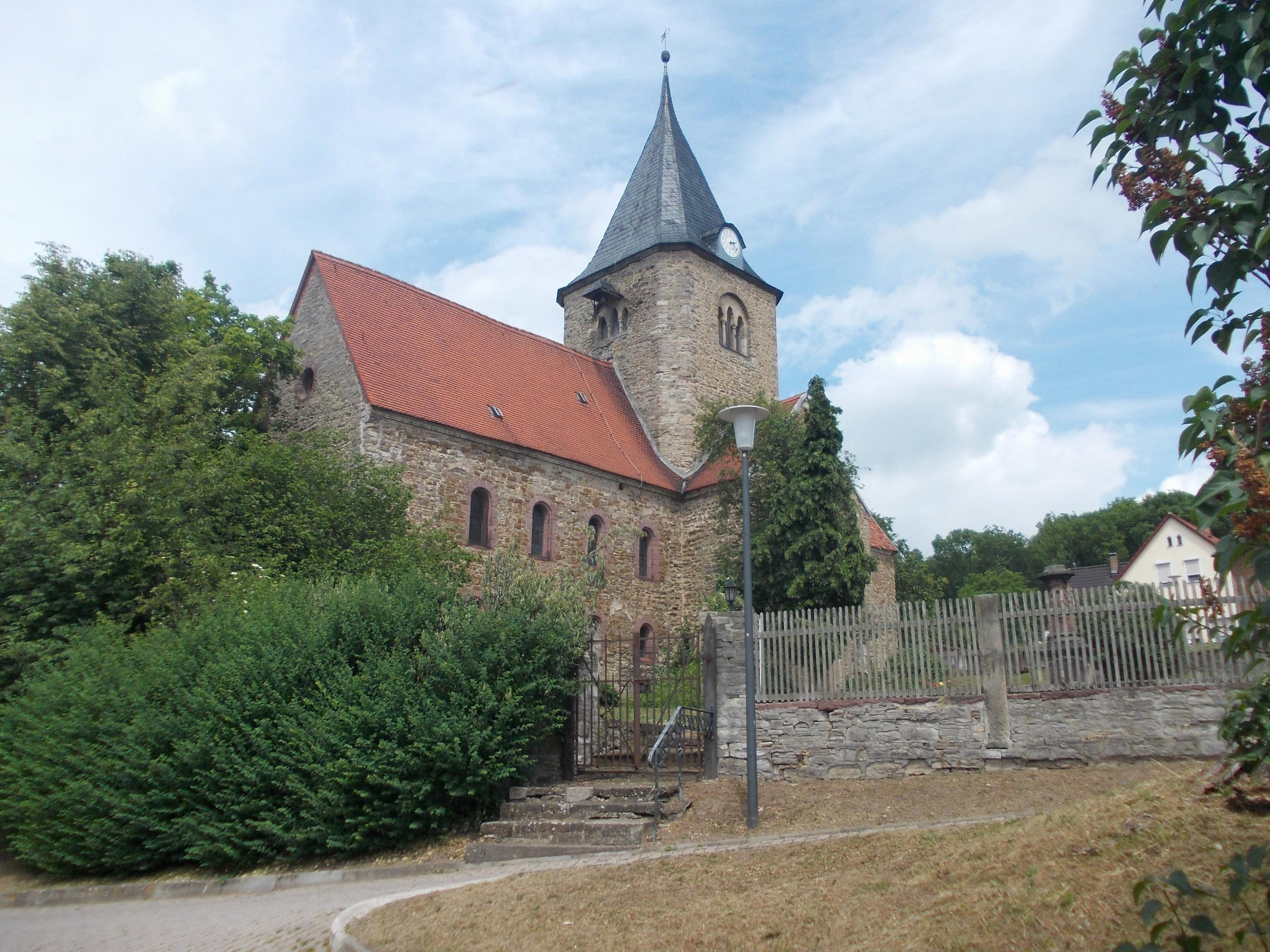 St. Urban's Church in Beyernaumburg (Allstedt, Mansfeld-Südharz district, Saxony-Anhalt)